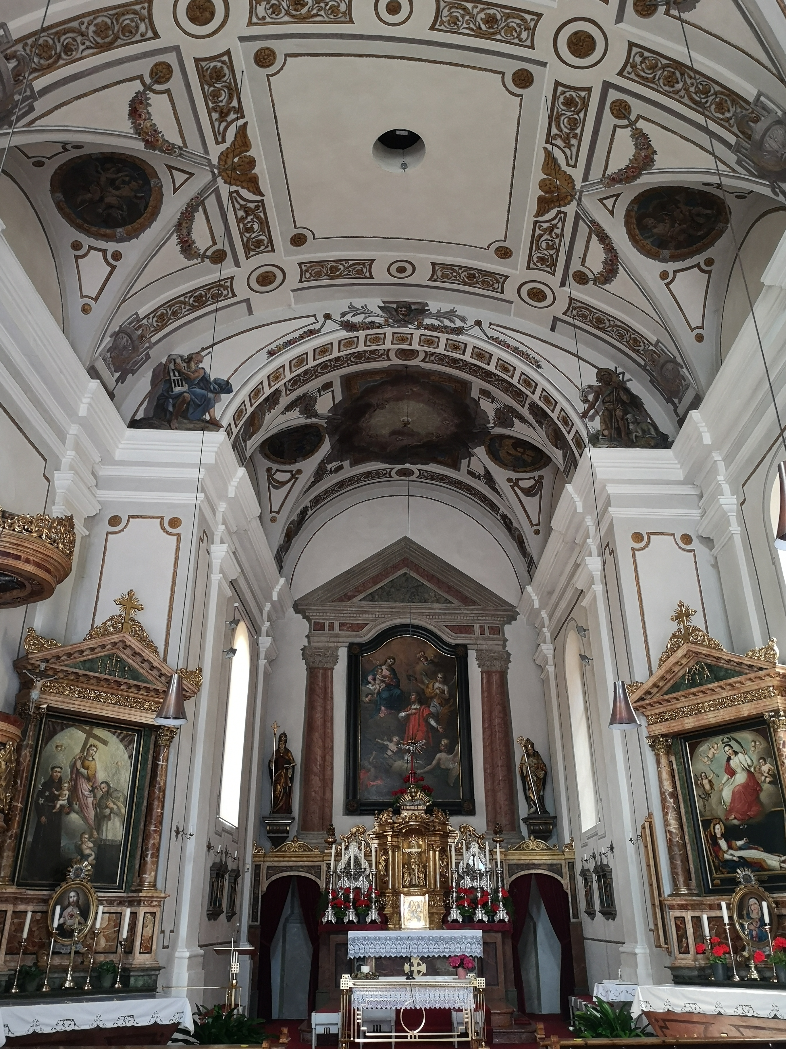 Innenraum von St. Lorenz in Rentsch-Bozen